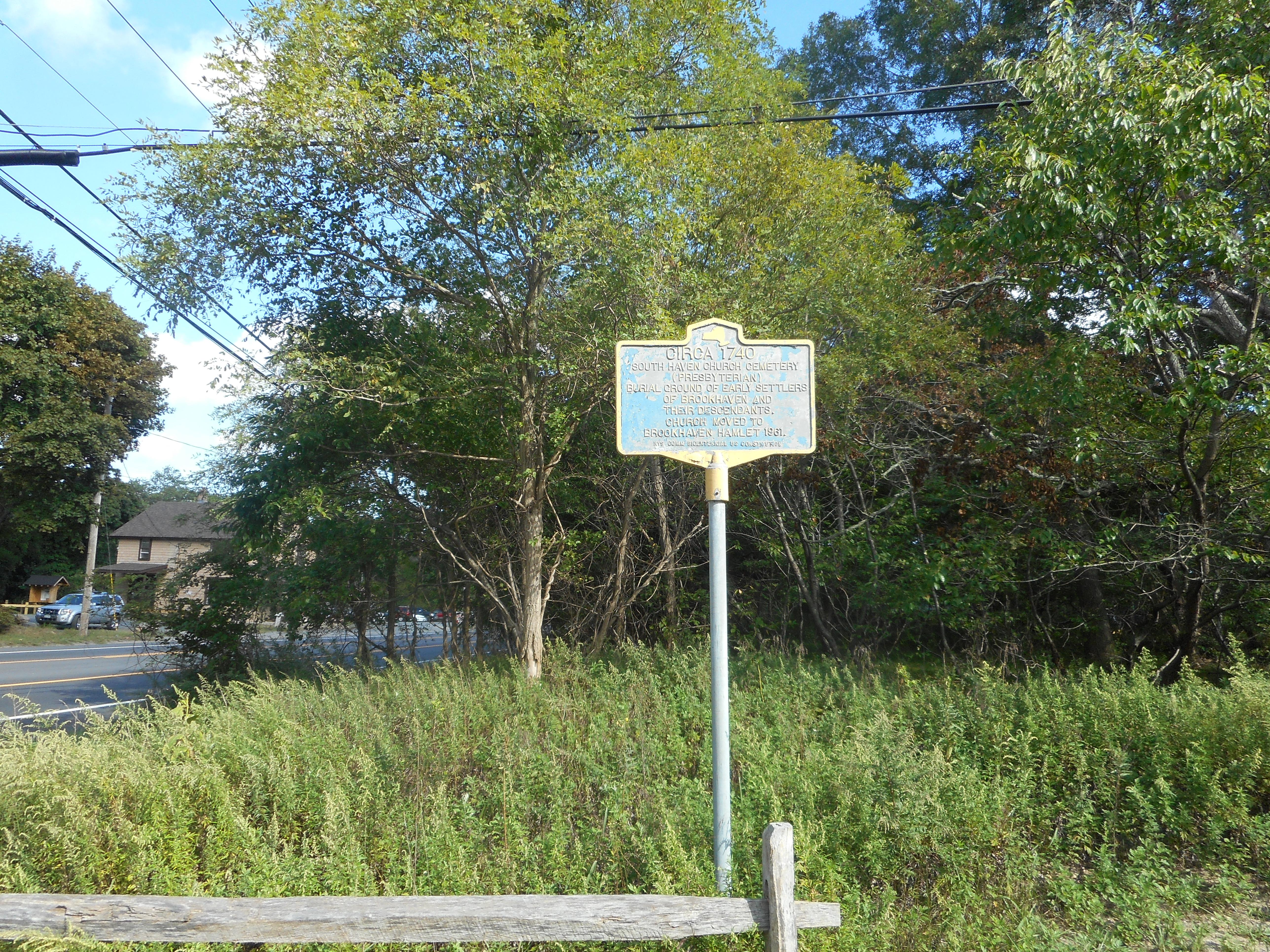 Plaque marking the site of the historic South Haven Presbyterian Church Cemetery along Montauk Highway (Suffolk County Road 80) in South Haven, New York.